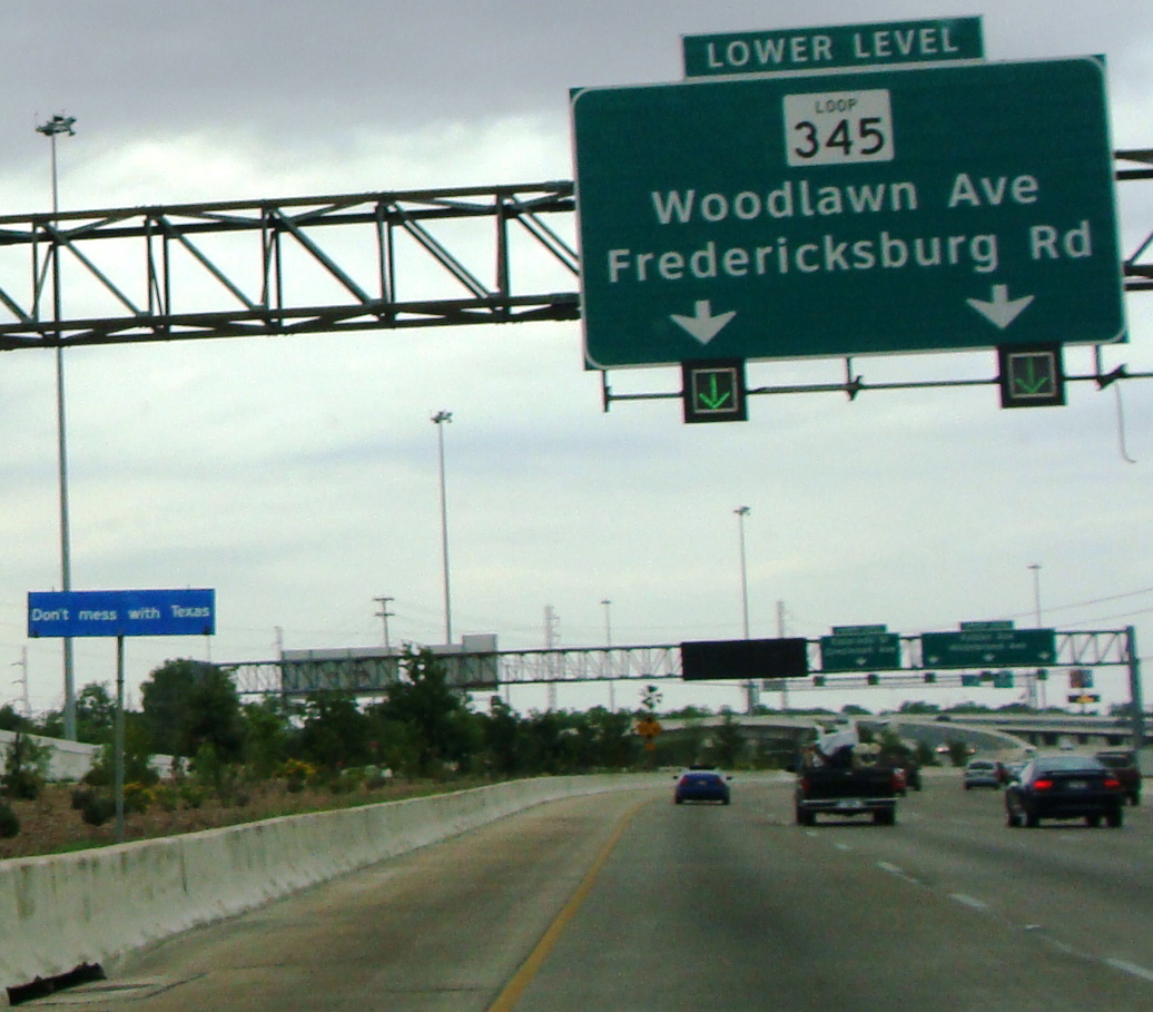 A blue "Don't Mess with Texas" sign on I-10W in San Antonio, Texas. I enhanced the blue sign with Photoshop to make the sign more visible. The resolution is low because I was driving while taking the shot, and because the weather wasnt perfect either.